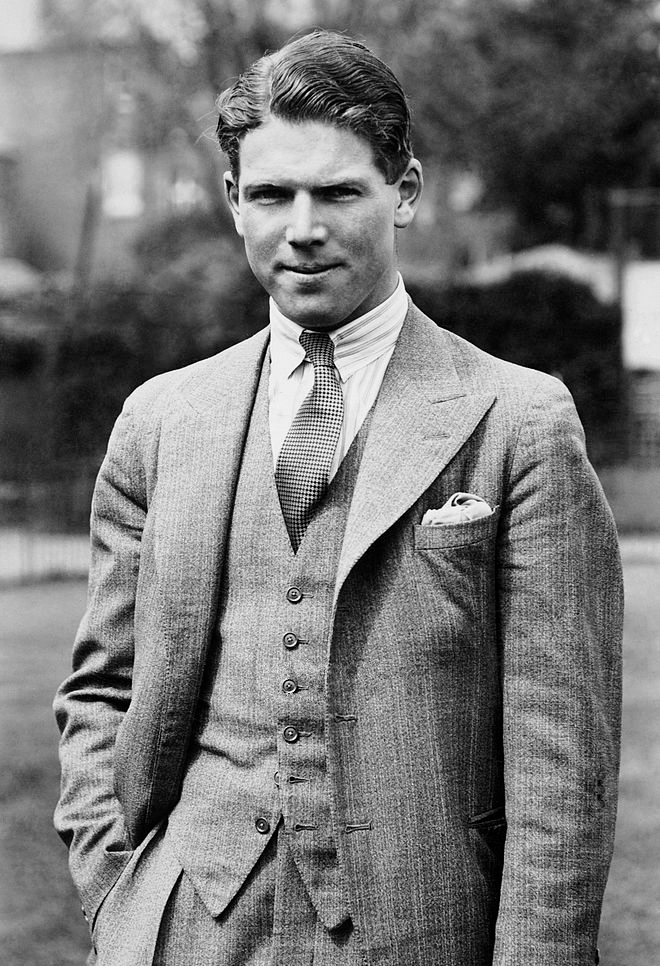 Geoffrey Albert Kirwan Collins (16 May 1909 – 7 August 1968), Sussex County cricket club, circa 1933.